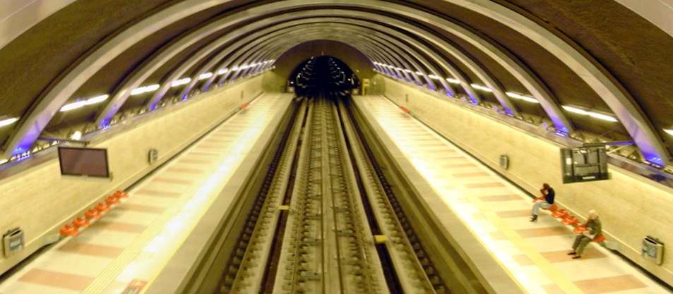 Simón Bolivar station, Line 4, Santiago Metro.